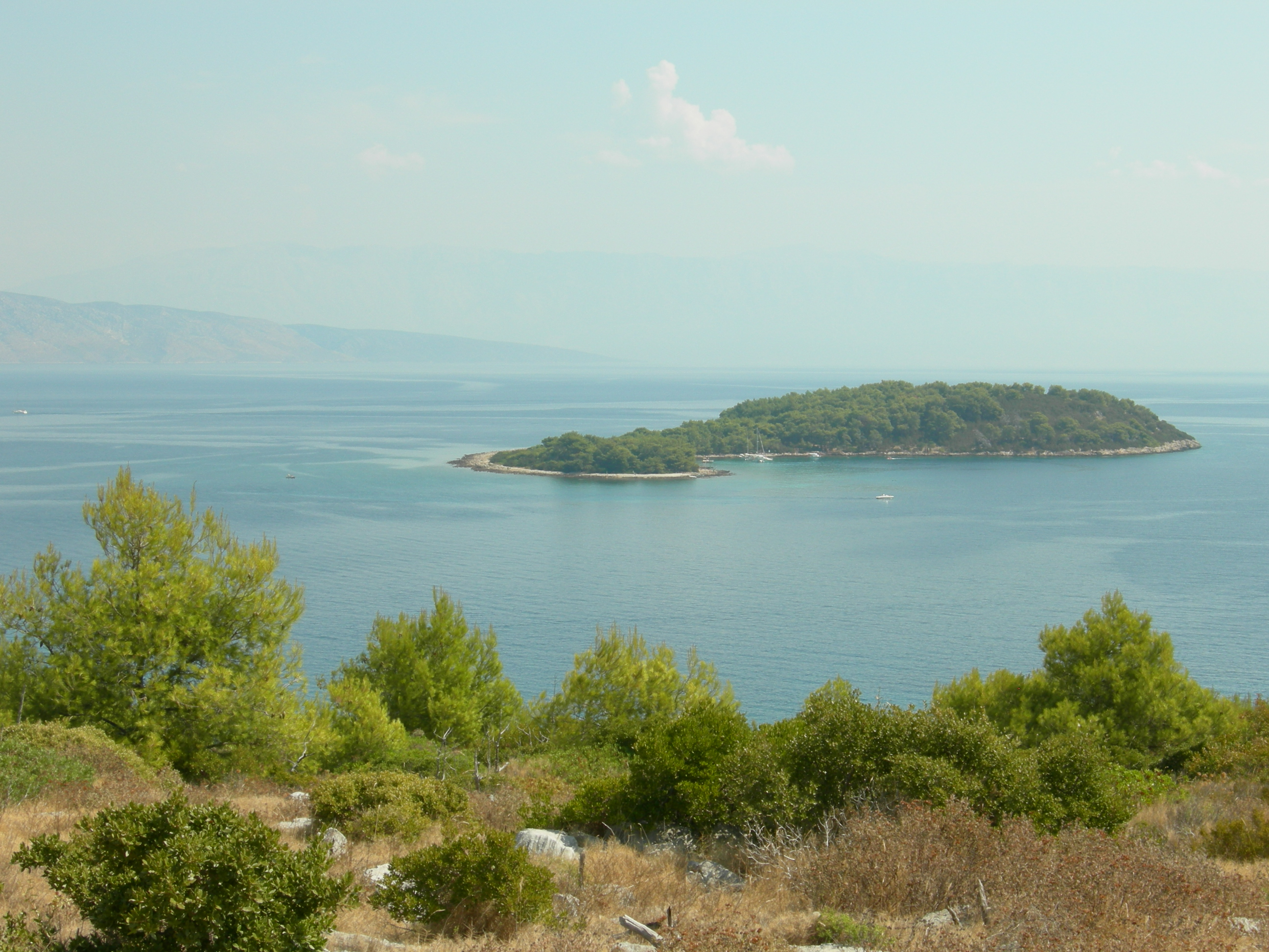 View at the island Zečevo from the north part of Hvar, near Vrboska